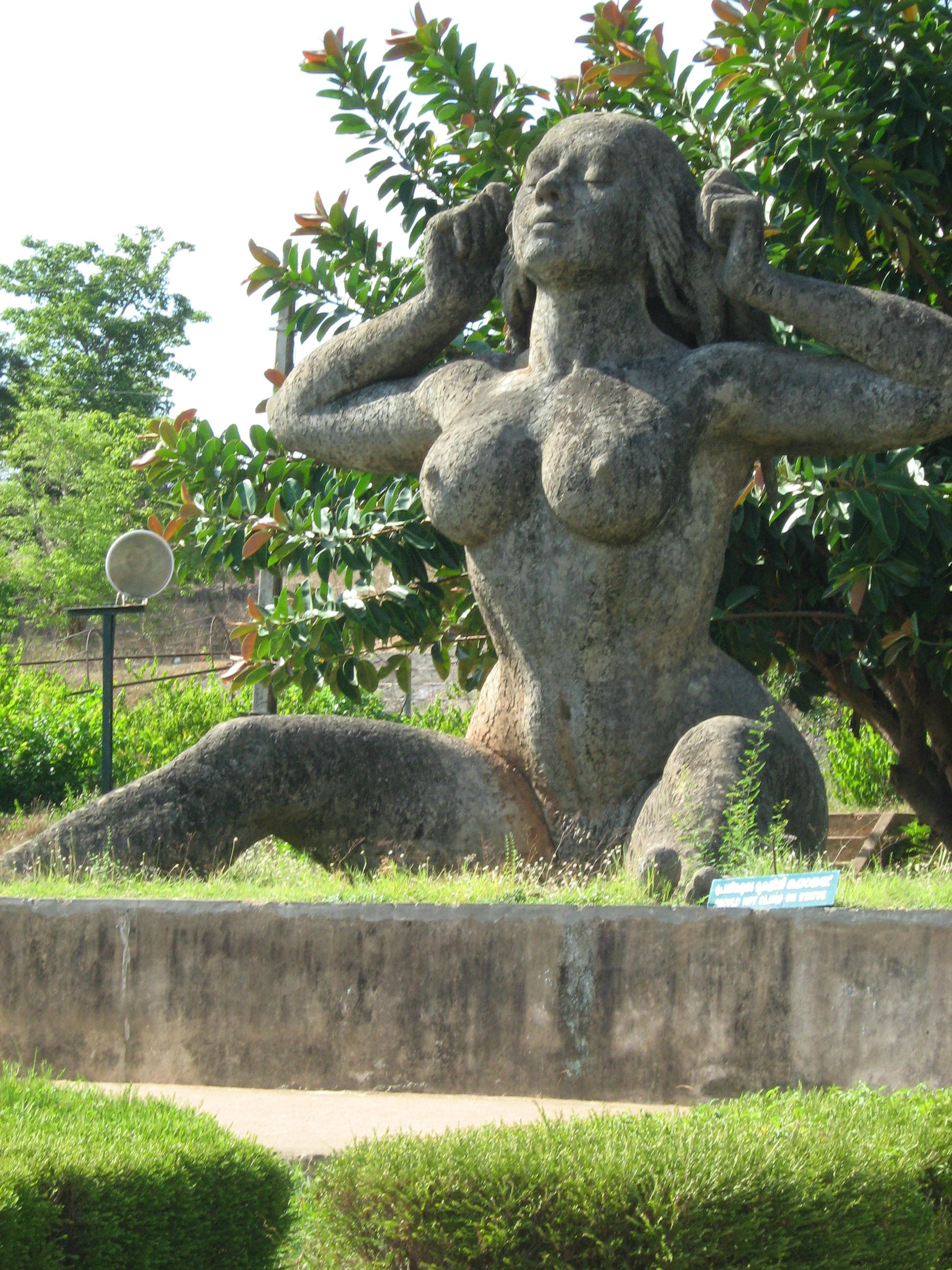 Photo taken by ManojTV on 26 May 2007